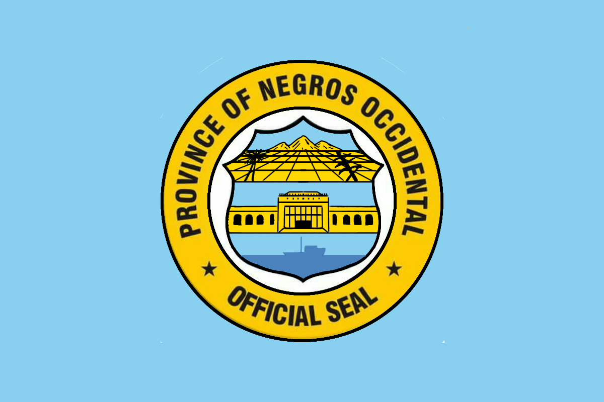 Provincial flag of Misamis Occidental